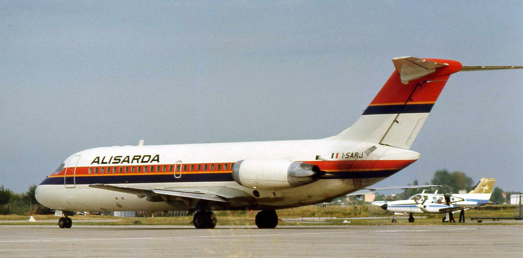 Alisarda McDonnell Douglas DC-9-14, I-SARJ, c/n 45702/15 purchased from Southern Airways registered N3307L delivered on 1974-01-11. Sold to Northwest Pipeline Company on 1981-05-12 and registered as N99YA. Here is taken at Pisa Galileo Galilei Airport in 1974 on a scheduled flight from Sardinia.